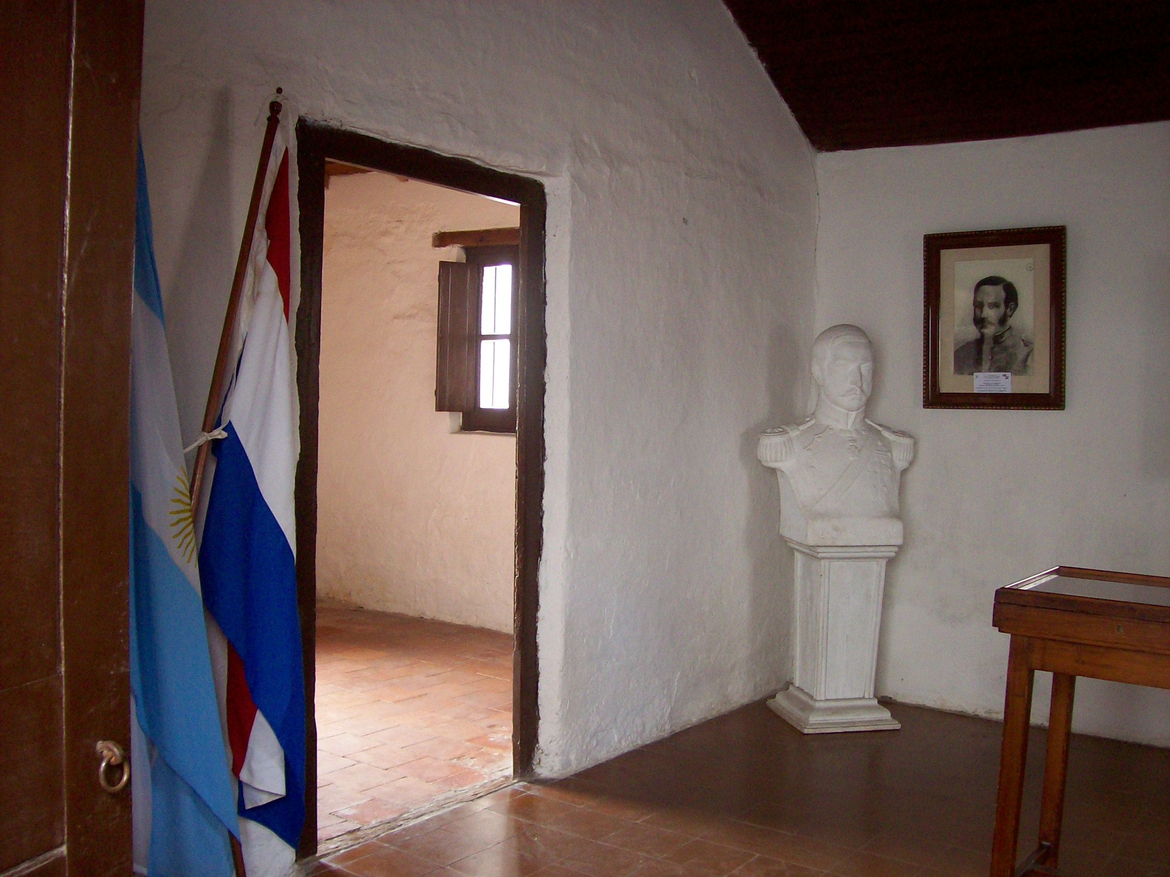 Inside of the historical house of Coronel José Félix Bogado in San Nicolás, Buenos Aires, Argentina.